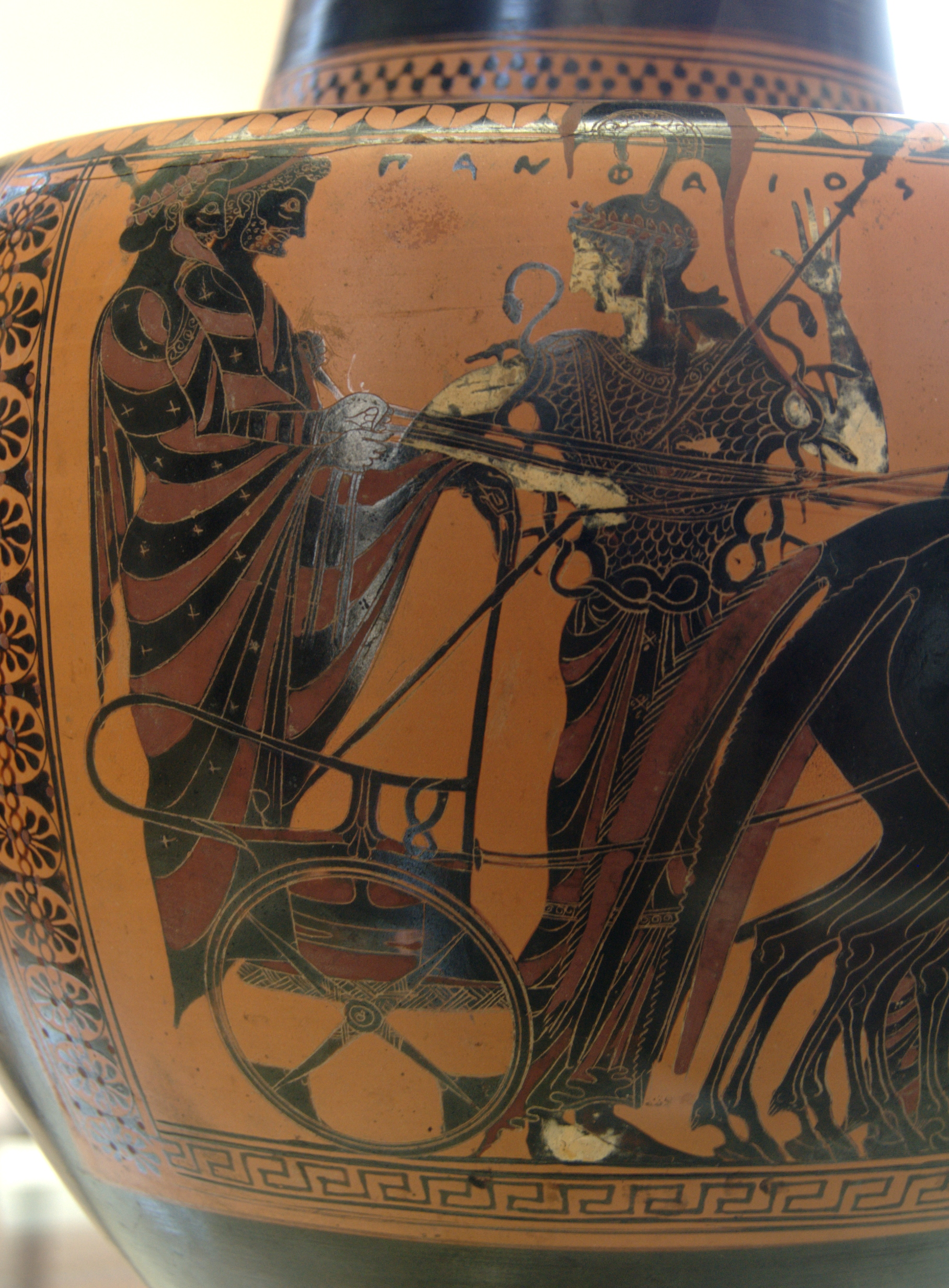 Heracles and Iolaus escorted by Athena (Apollo and Hermes are not visible). Attic black-figured hydria. Found in Toscanella.